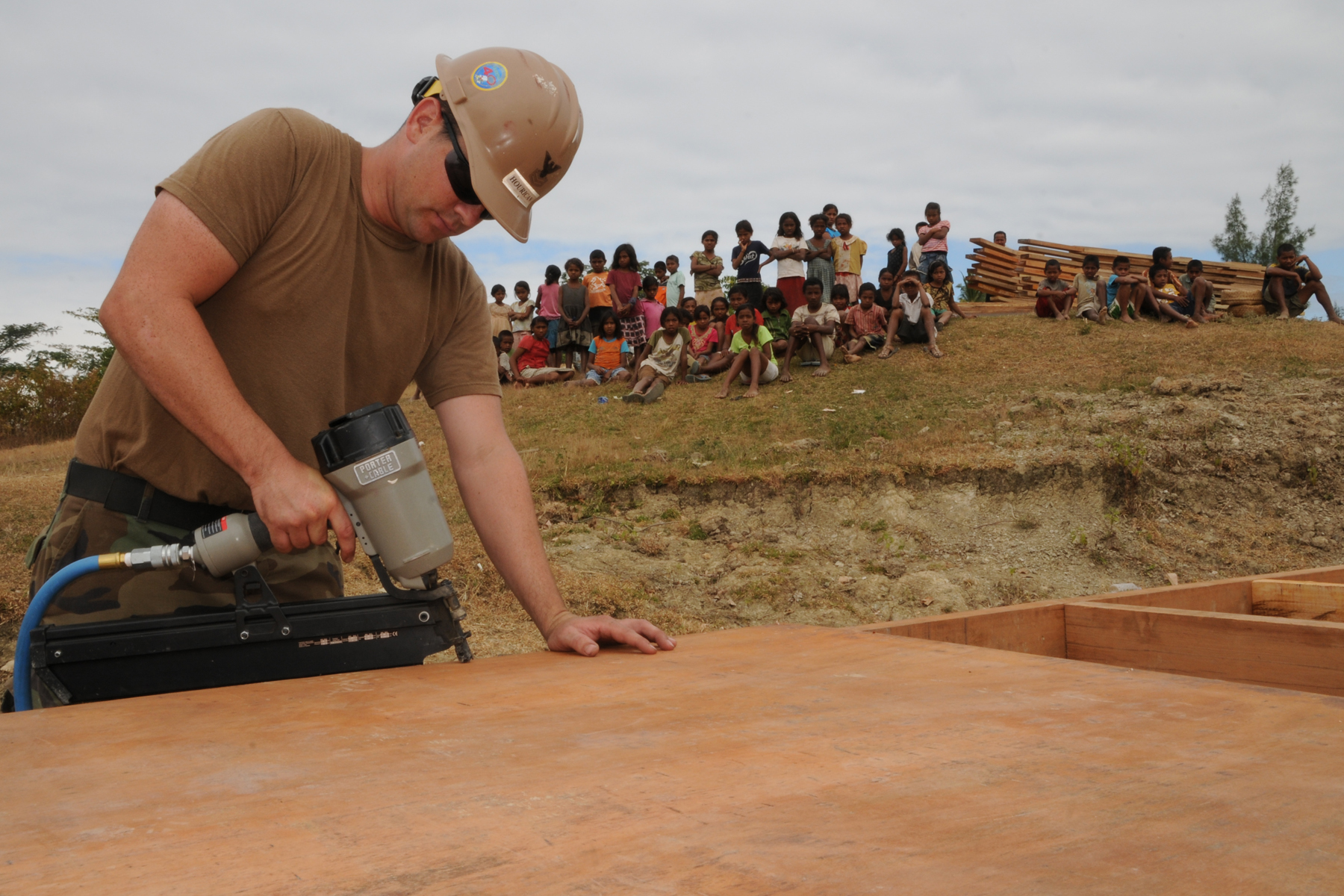 TAHABERE, Timor-Leste (July 18, 2009) Hospital Corpsman 1st Class Edward Hourican, assigned to Naval Mobile Construction Battalion (NMCB) 40, fastens a sheet of plywood as villagers look on at a school construction project south of Baucau, Timor-Leste. NMCB 40 established the Naval Construction Force's newest detail site in Timor-Leste in February 2009. (U.S. Navy photo by Chief Mass Communication Specialist Anthony Briggs/Released)